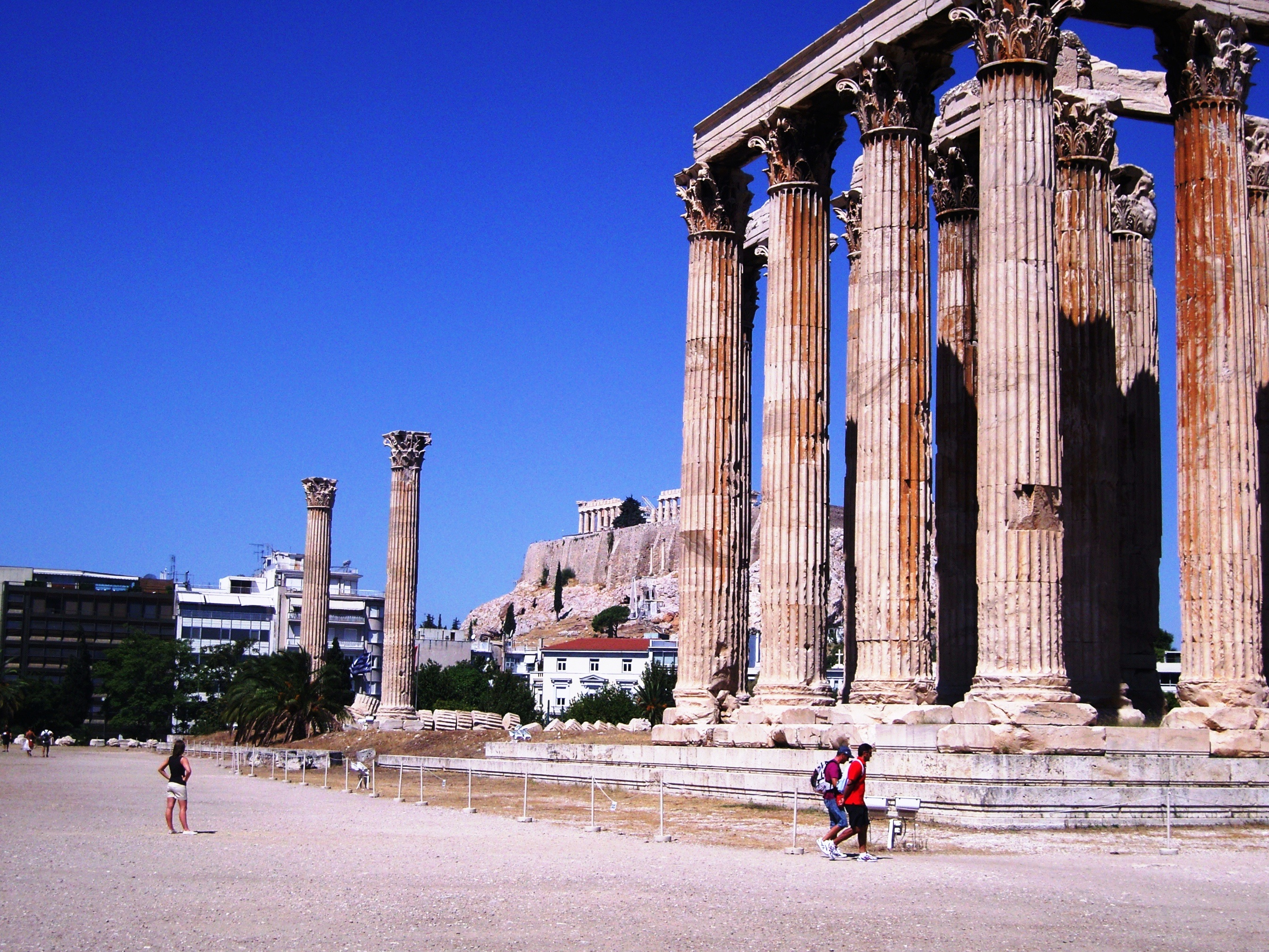 Temple of Olympian Zeus in Athens; 5-foot tall female at left of frame for reference. Athenian Acropolis with Parthenon visible beyond columns at center frame.